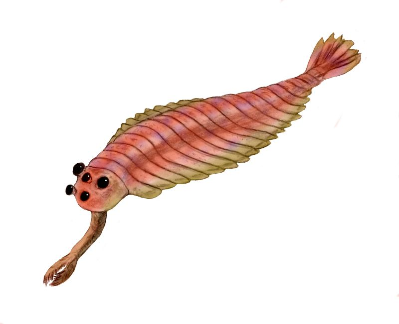 Opabinia regalis, an enigmatic animal from the middle Cambrian Burgess Shale of British Columbia, pencil drawing, digital coloring Ref: Gould, S.J. (1989) Wonderful Life, Hutchinson Radius, p. 124-136 ISBN: 0091742714.